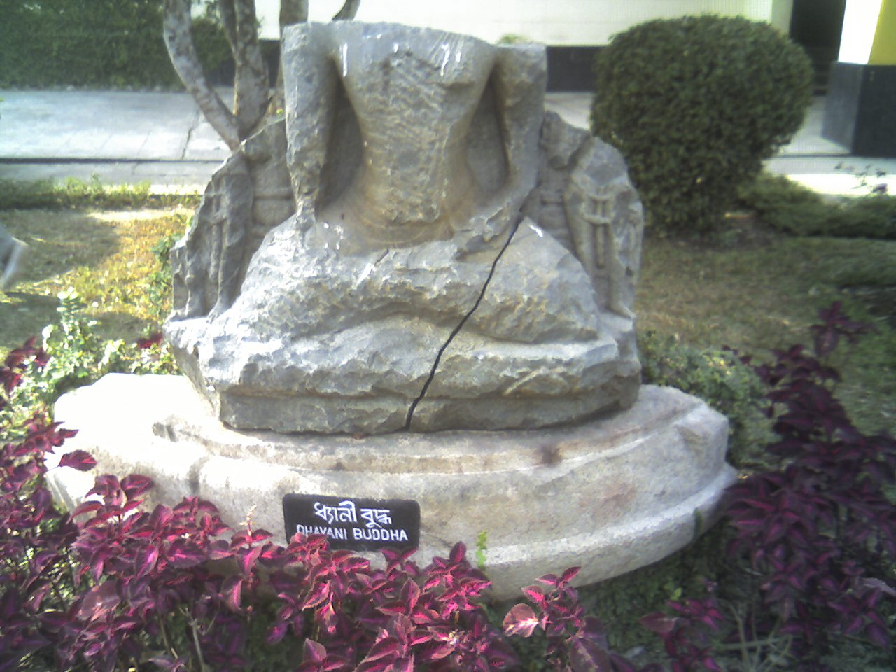 Buddha sculpture in Mahasthangarh